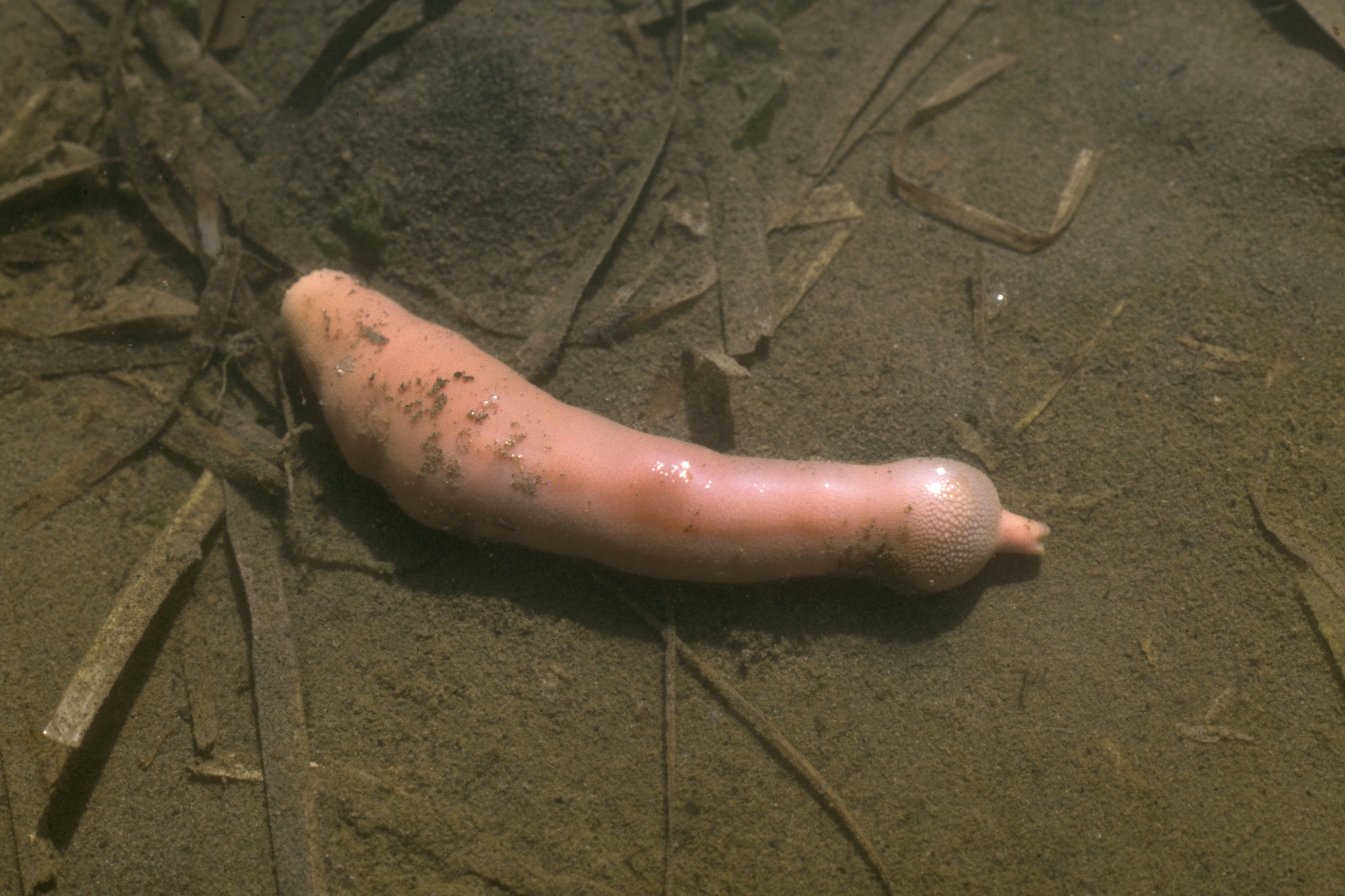 Urechis caupo. "The innkeeper worm lives in a U shaped tube, and gets its name for the goby, scale worm, and pea crab that are often found living with it. It also puts out a slime net from its proboscis which can extend and capture food down to 30 microns."